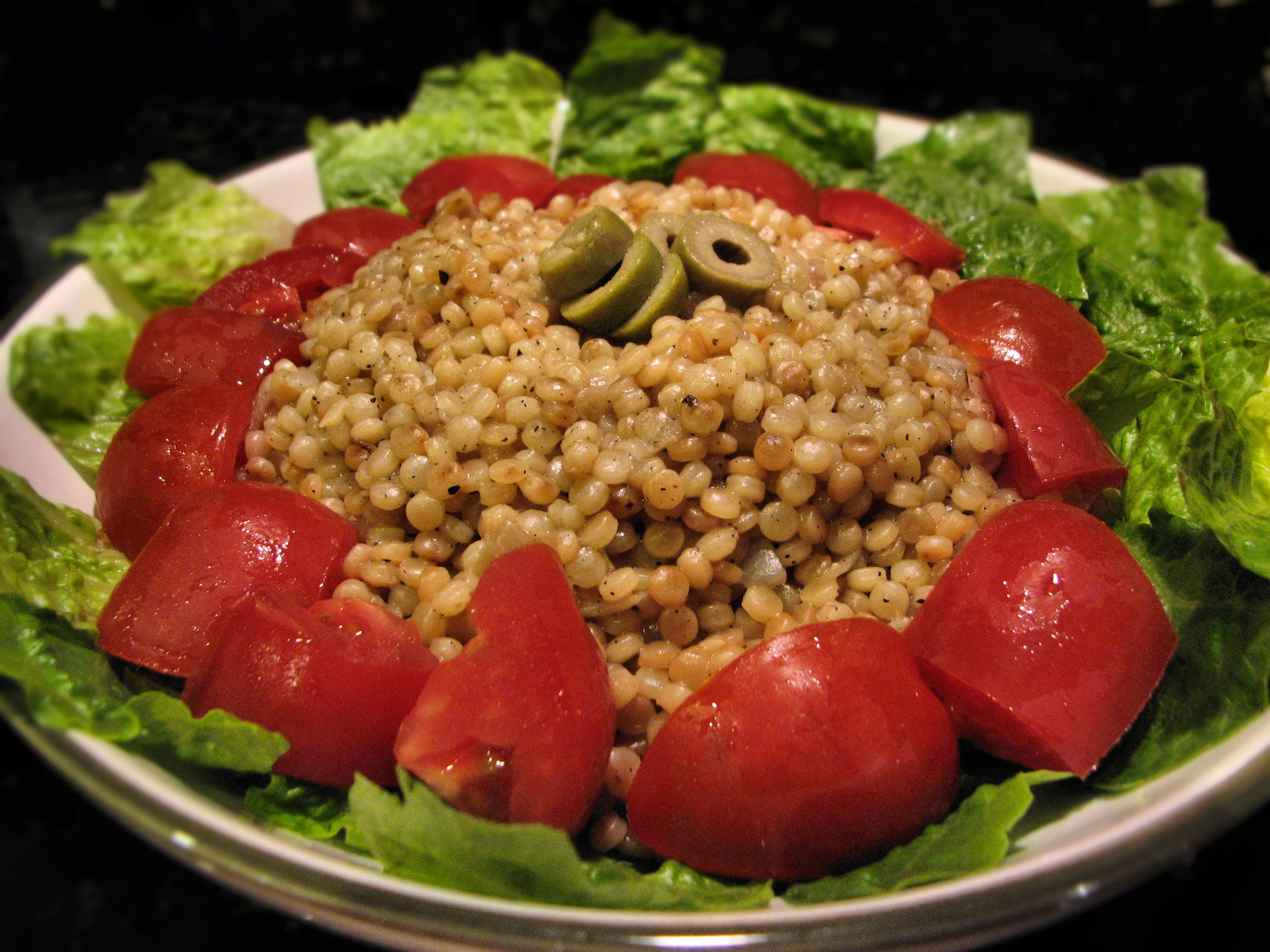 Israel couscous also known as ptitim or פתיתים אפויים in Hebrew. Prepared by myself and photographed for ptitim & couscous articles on English wikipedia.